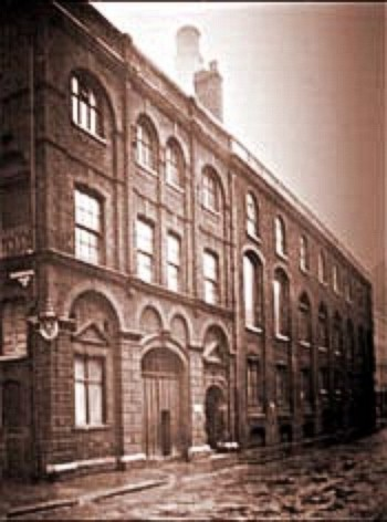 Photograph of "The Old Glass House in Tudor St"